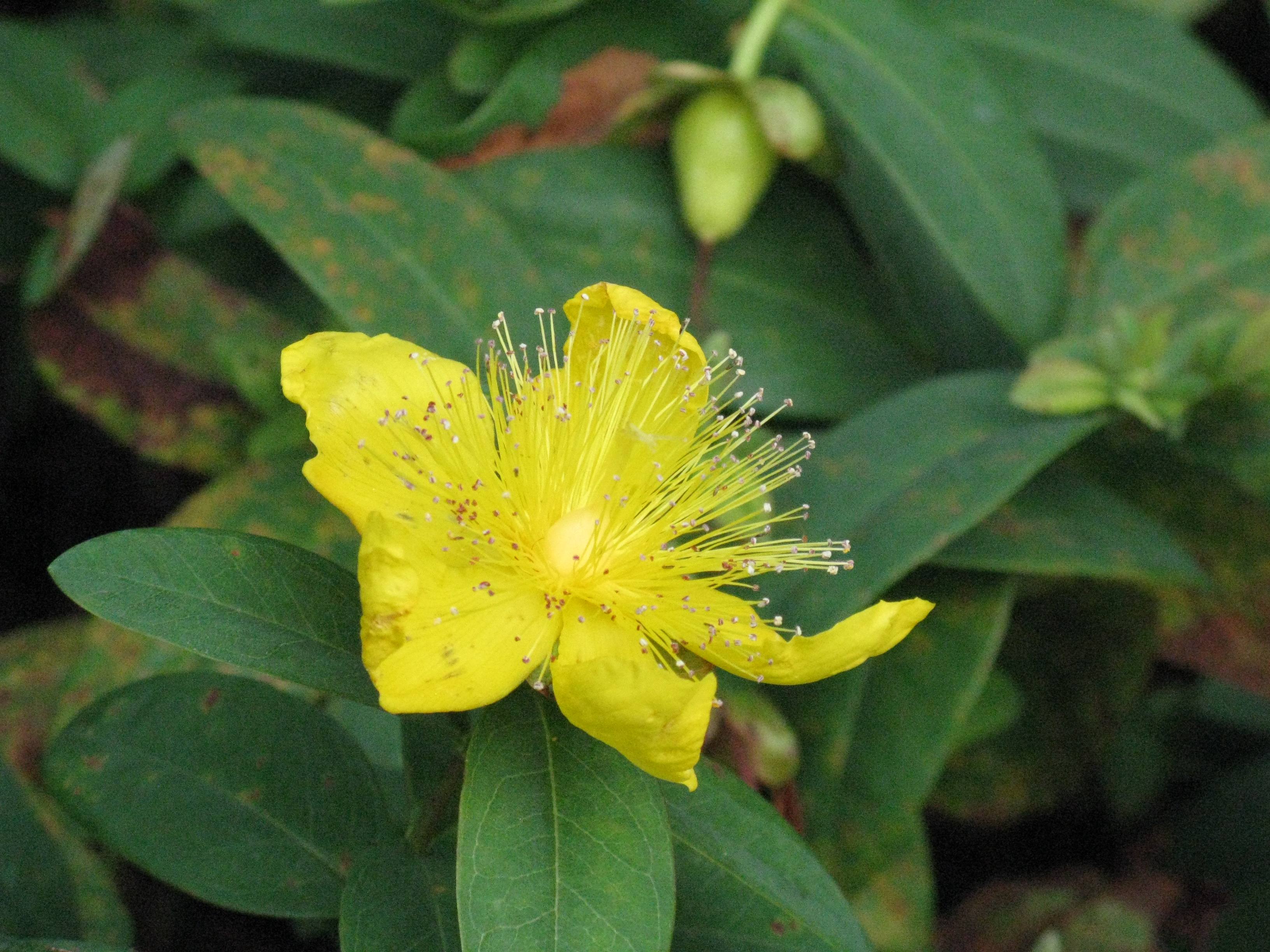 Scientific name Hypericum calycinum